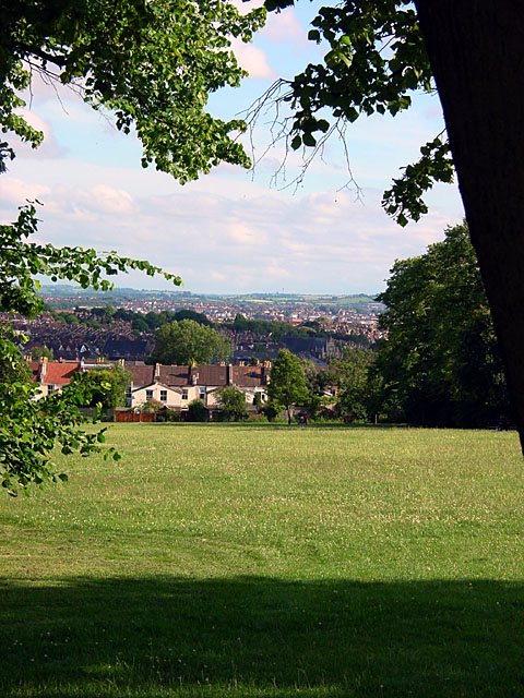 Horfield Common looking over Bristol. From Horfield Common it is possible to look over the centre of the city and out to the hills on the other side.